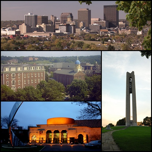 Montage of Dayton images. From top to bottom left to right: Dayton Skyline University of Dayton Dayton Art Institute Deeds Carillon